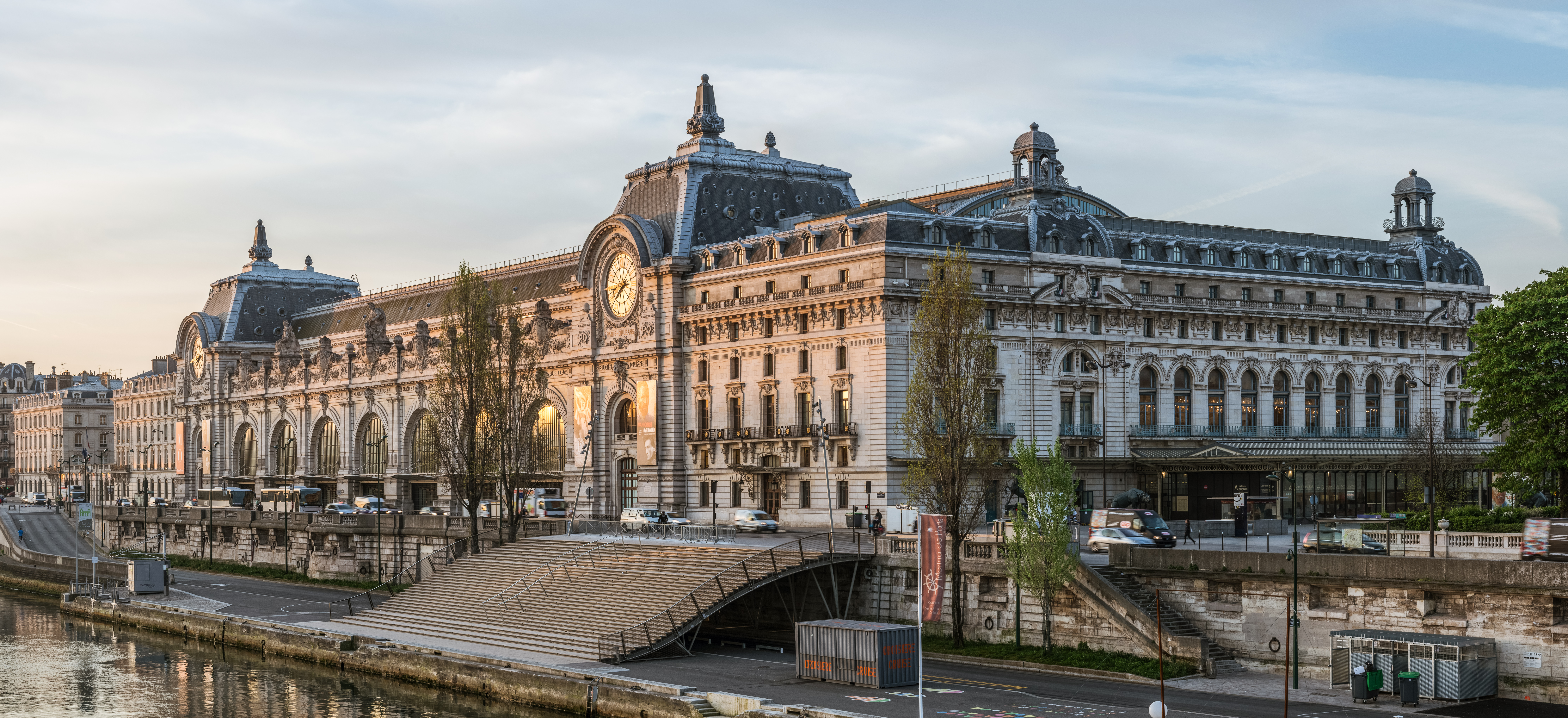 The Musée d'Orsay as seen from the Passerelle Léopold-Sédar-Senghor